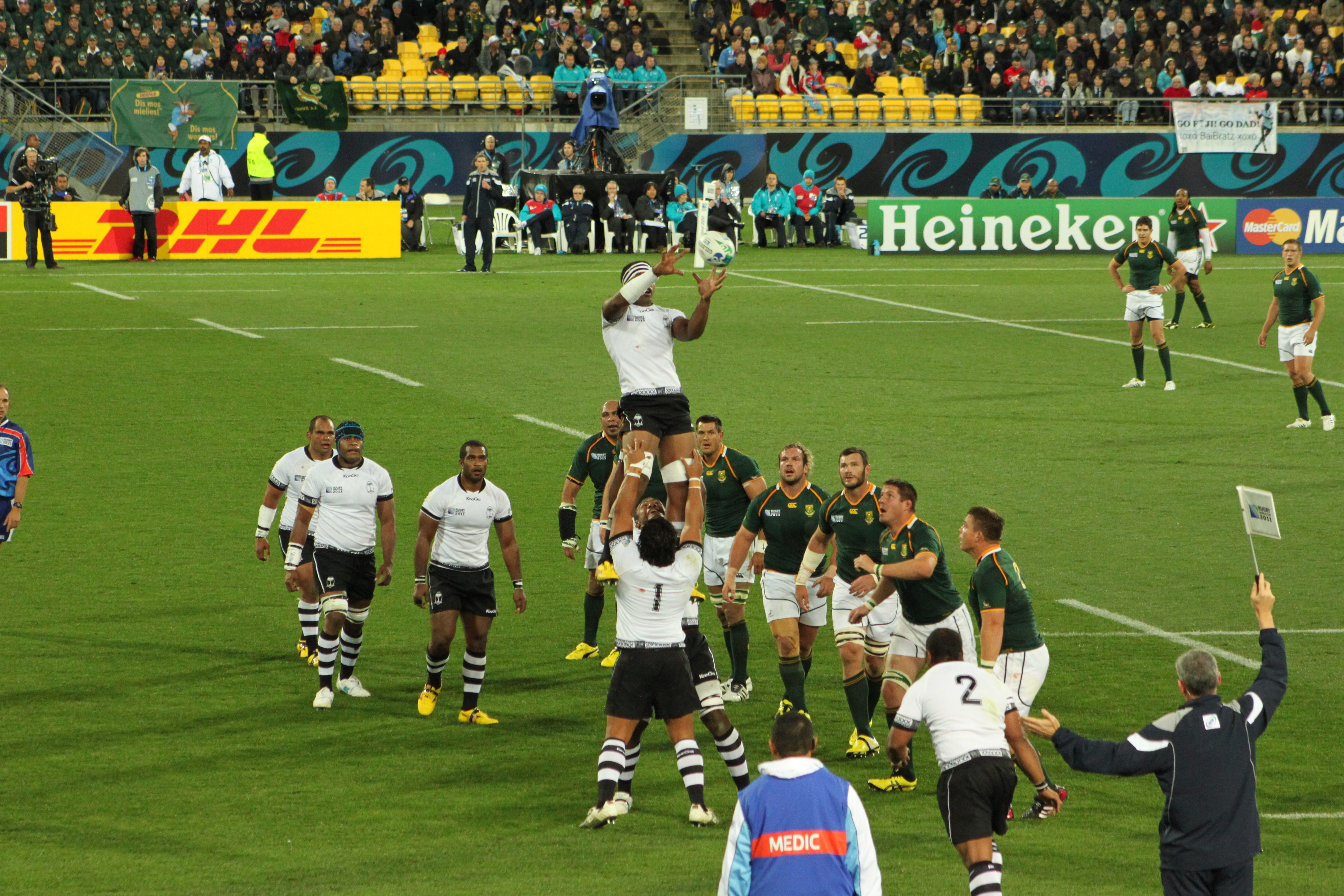 Match between South Africa and Fiji during 2011 Rugby World Cup in New Zealand.